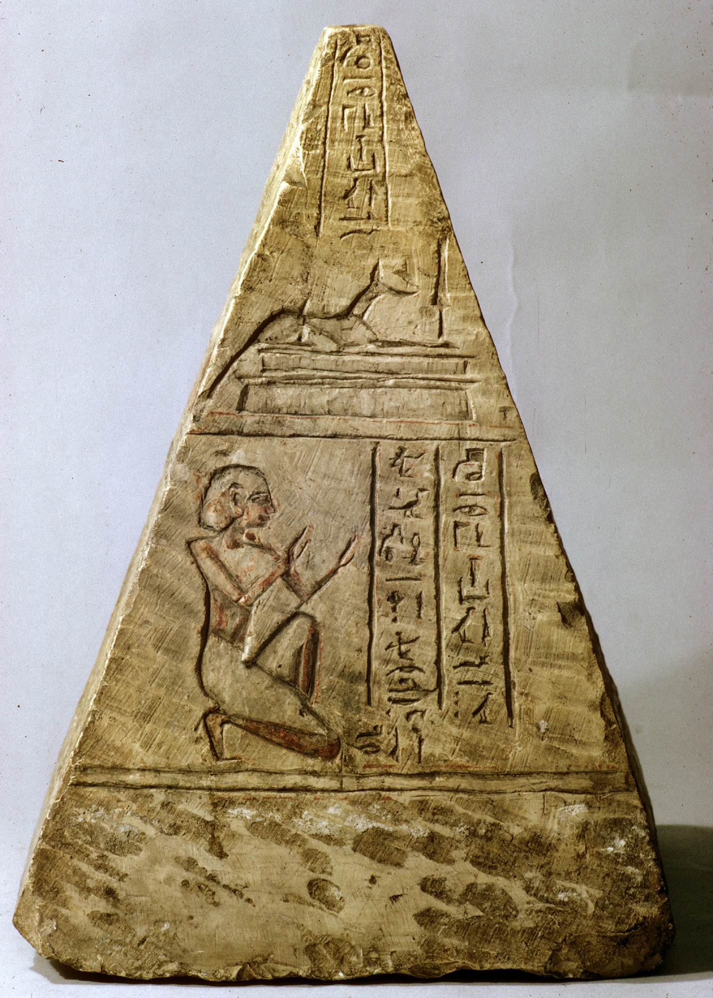 Pyramidion, Iuf